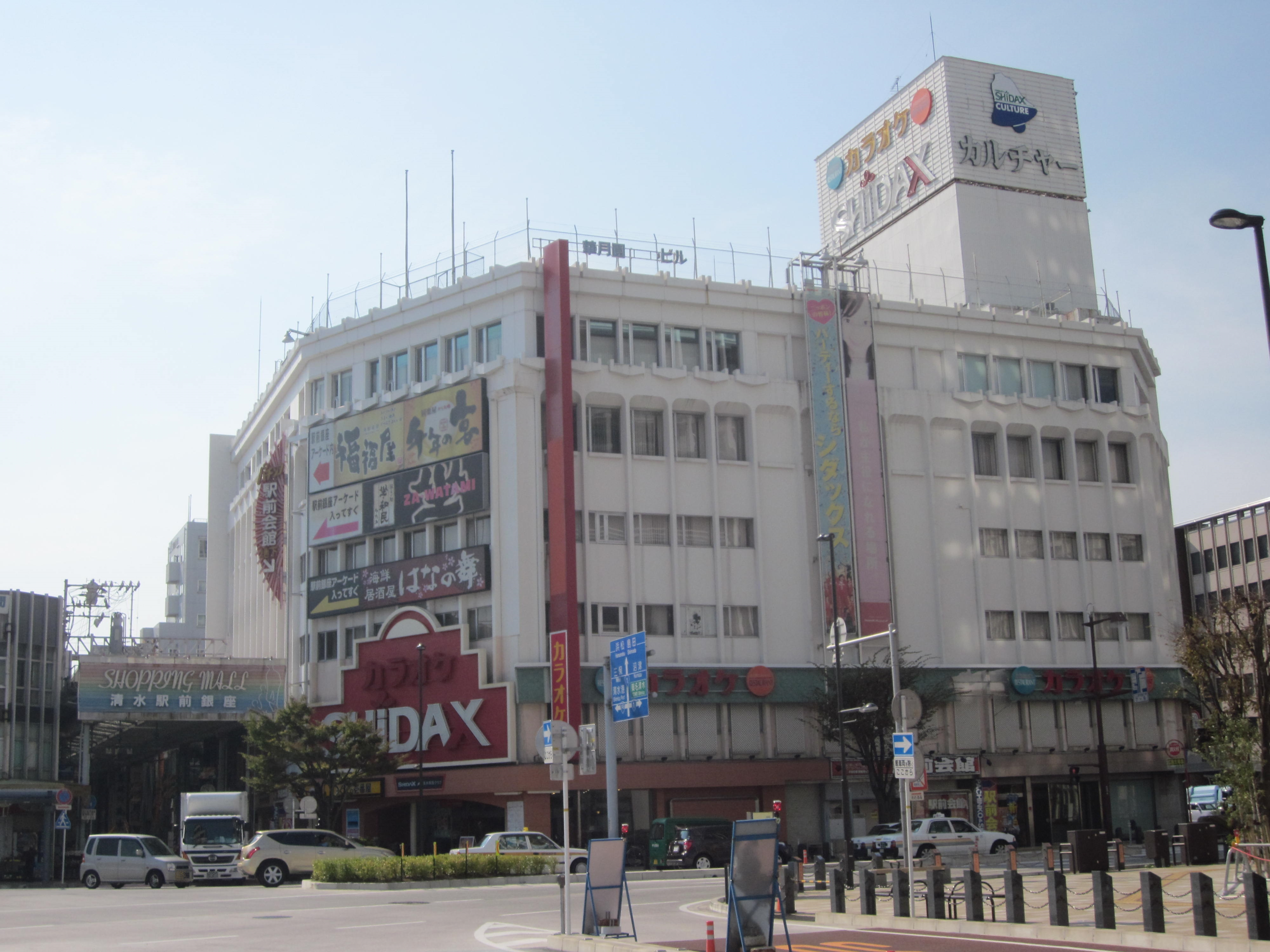 Shot at Shimizu Station West Exit Ekimae Taxi / Bus Depot on 27th October 2012.